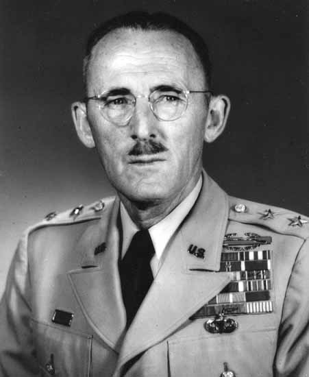 Major General Charles D.W. Cahnam from U.S. Army photo, ineligible for copyright